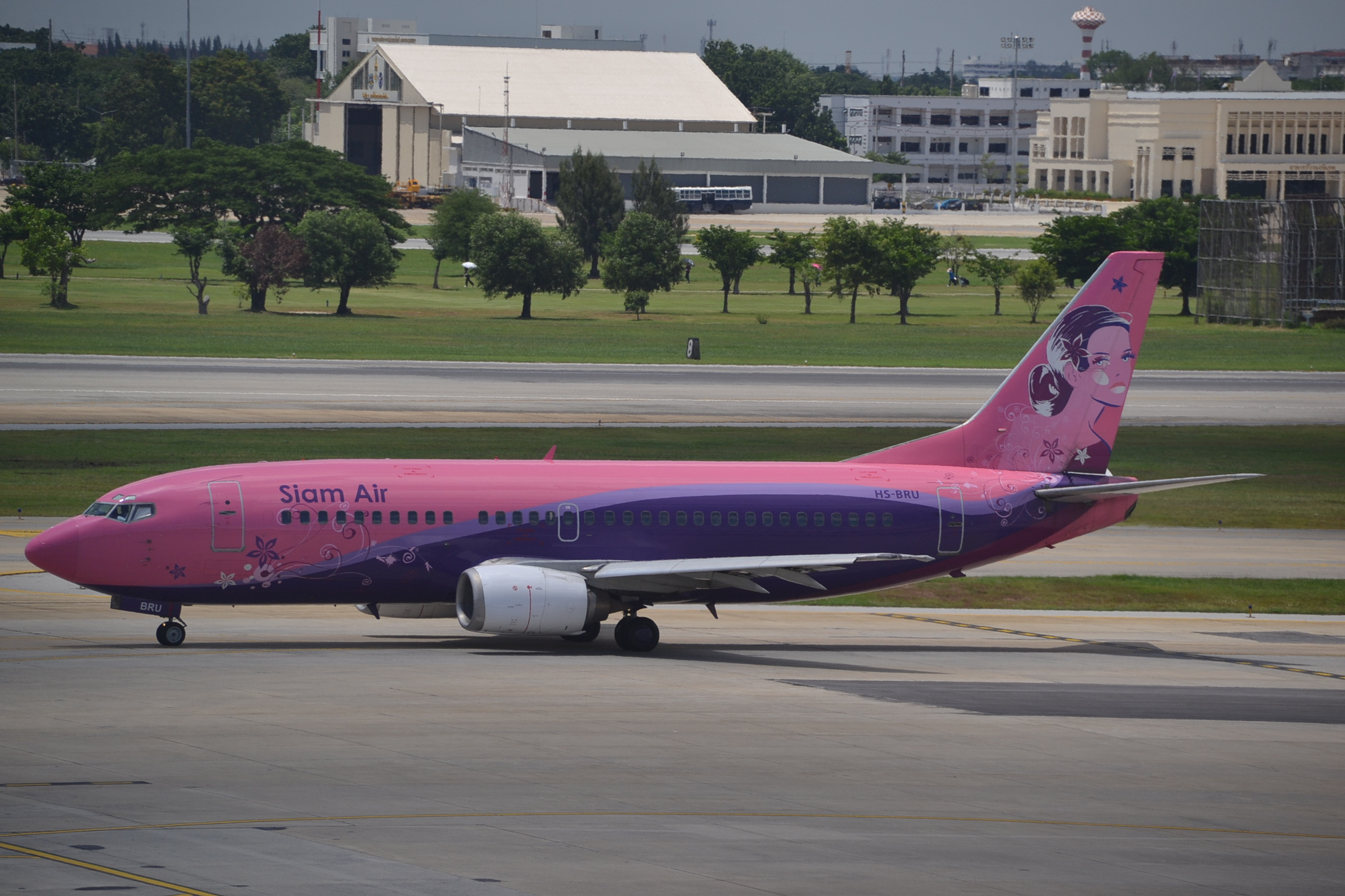 Boeing 737-300 of Siam Air Transport at Bangkok Don Mueang-DMK,Thailand,19/06/15.